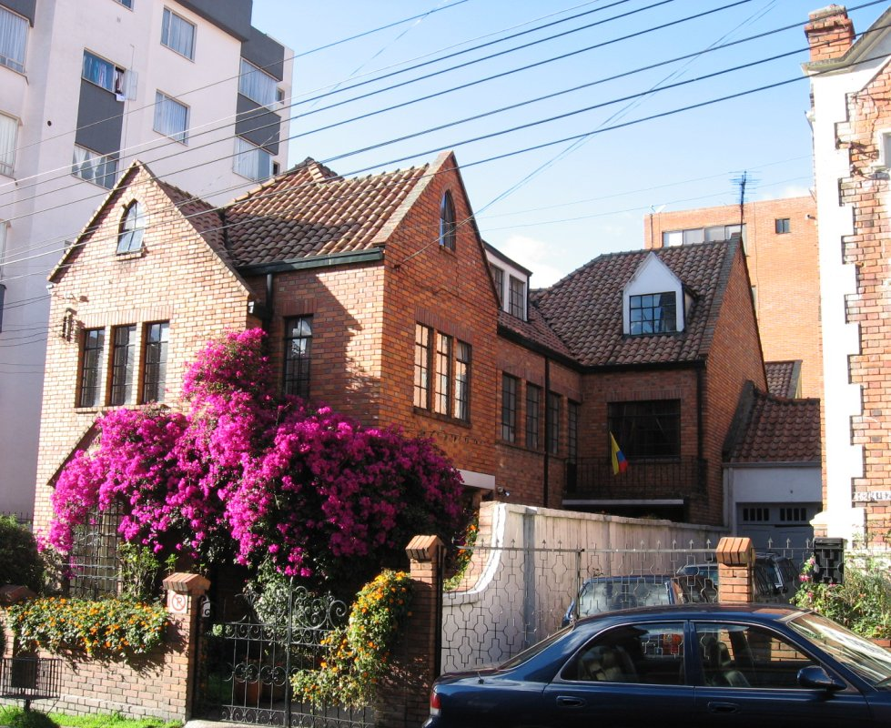 Casa en Chapinero Alto; Bogotá